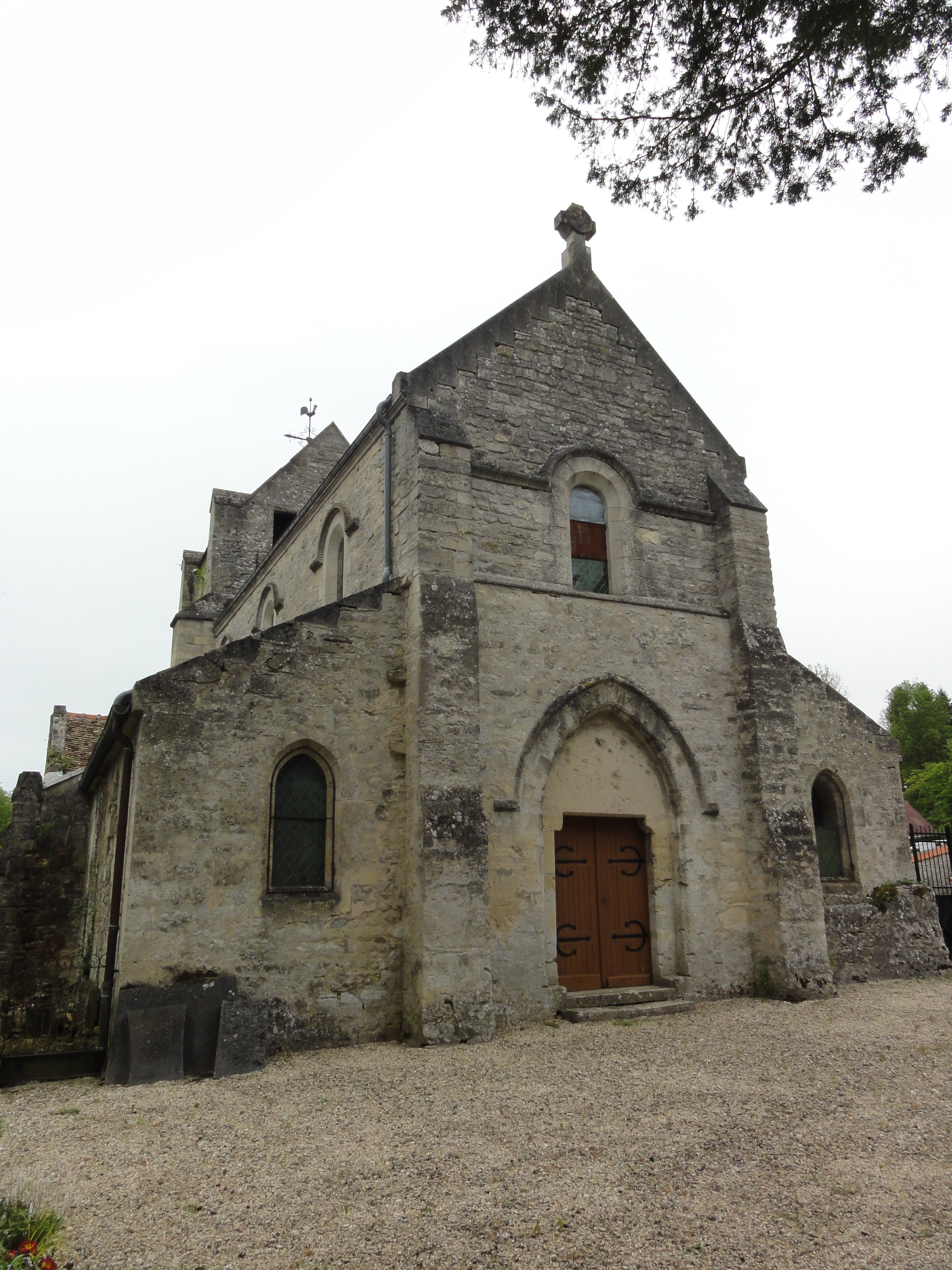 Ployart-et-Vaurseine (Aisne) église de Ployart